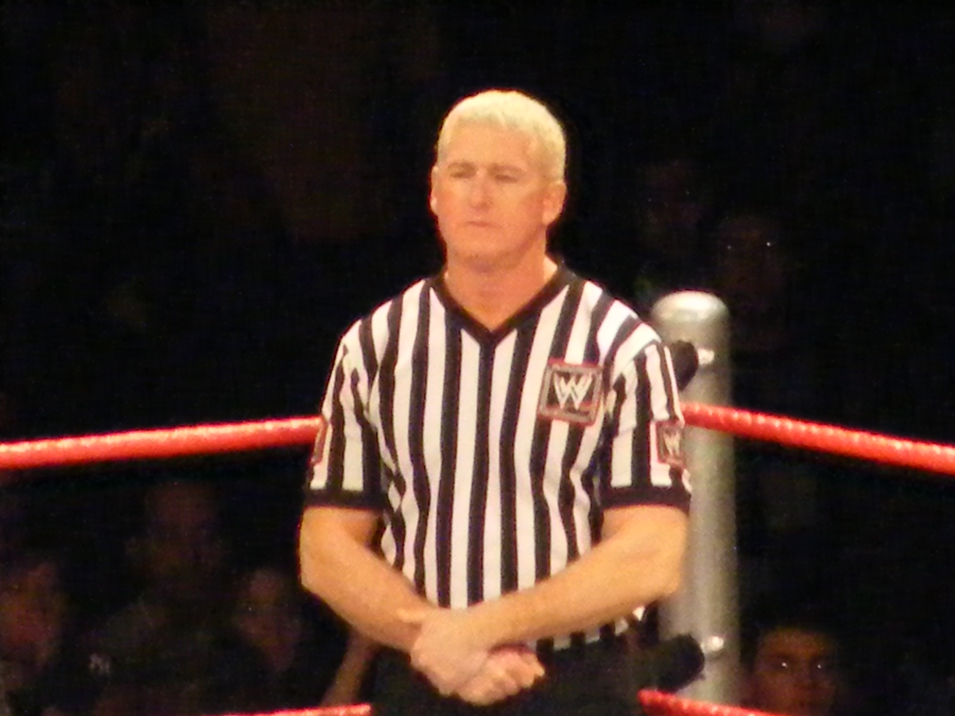 Professional wrestler and professional wrestling referee Scott Armstrong (real name Joseph James, Jr.) at a WWE show in Syracuse on December 20, 2009